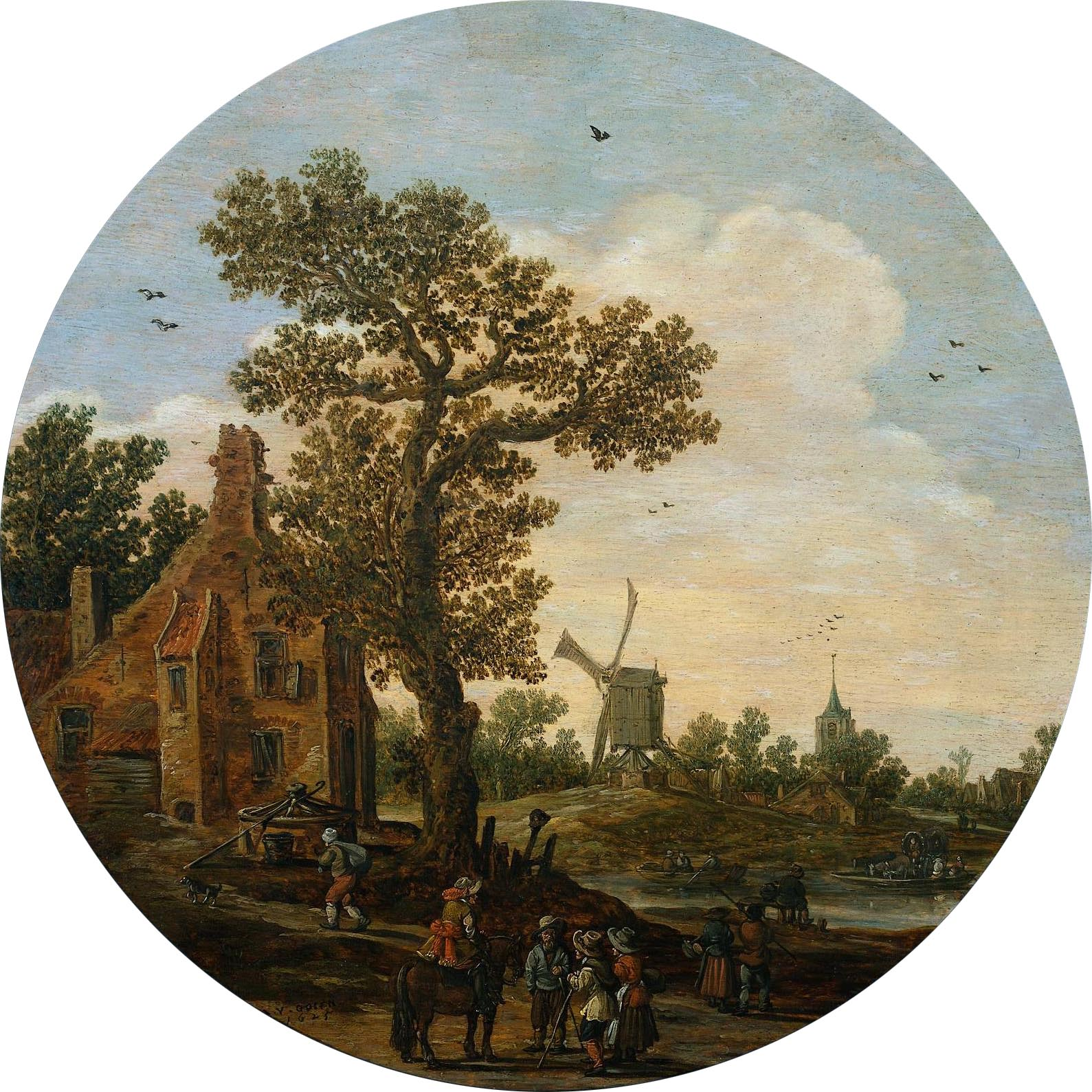 Allegory of summer. Pendant of File:Goyen 1625 winter.jpg.